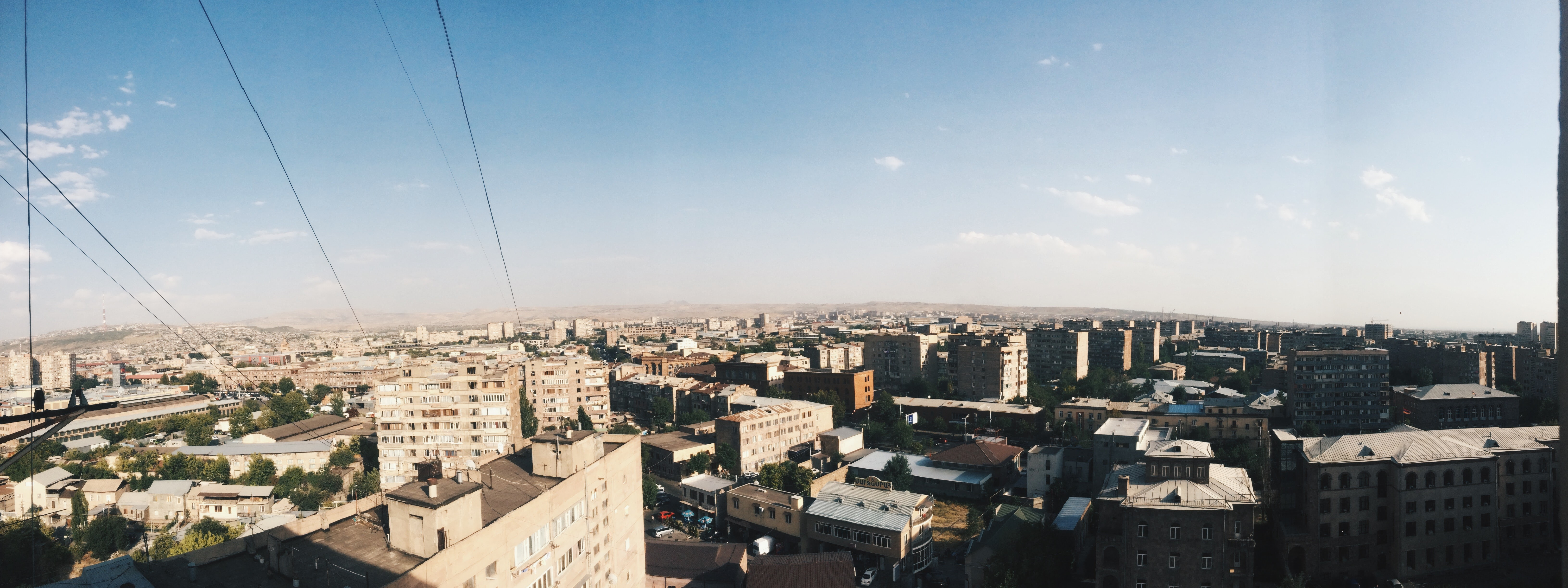 Panoramic view of Shengavit District, Armenia